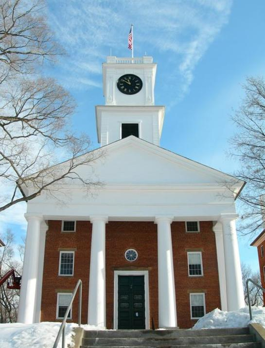 Johnson Chapel at Amherst College in December 2005